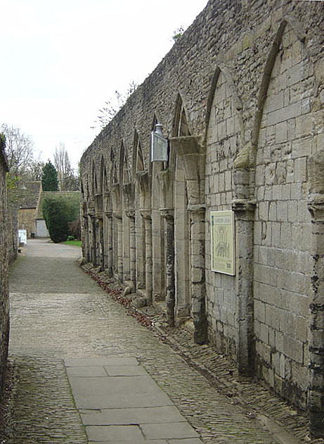 Arcade of the monks' refectory. This is the view looking in the opposite direction to 671319. The arcade formed part of the west wall of the refectory, so this open passage would have been within the hall. This is the only part of the outer abbey buildings which has any sort of information panel.